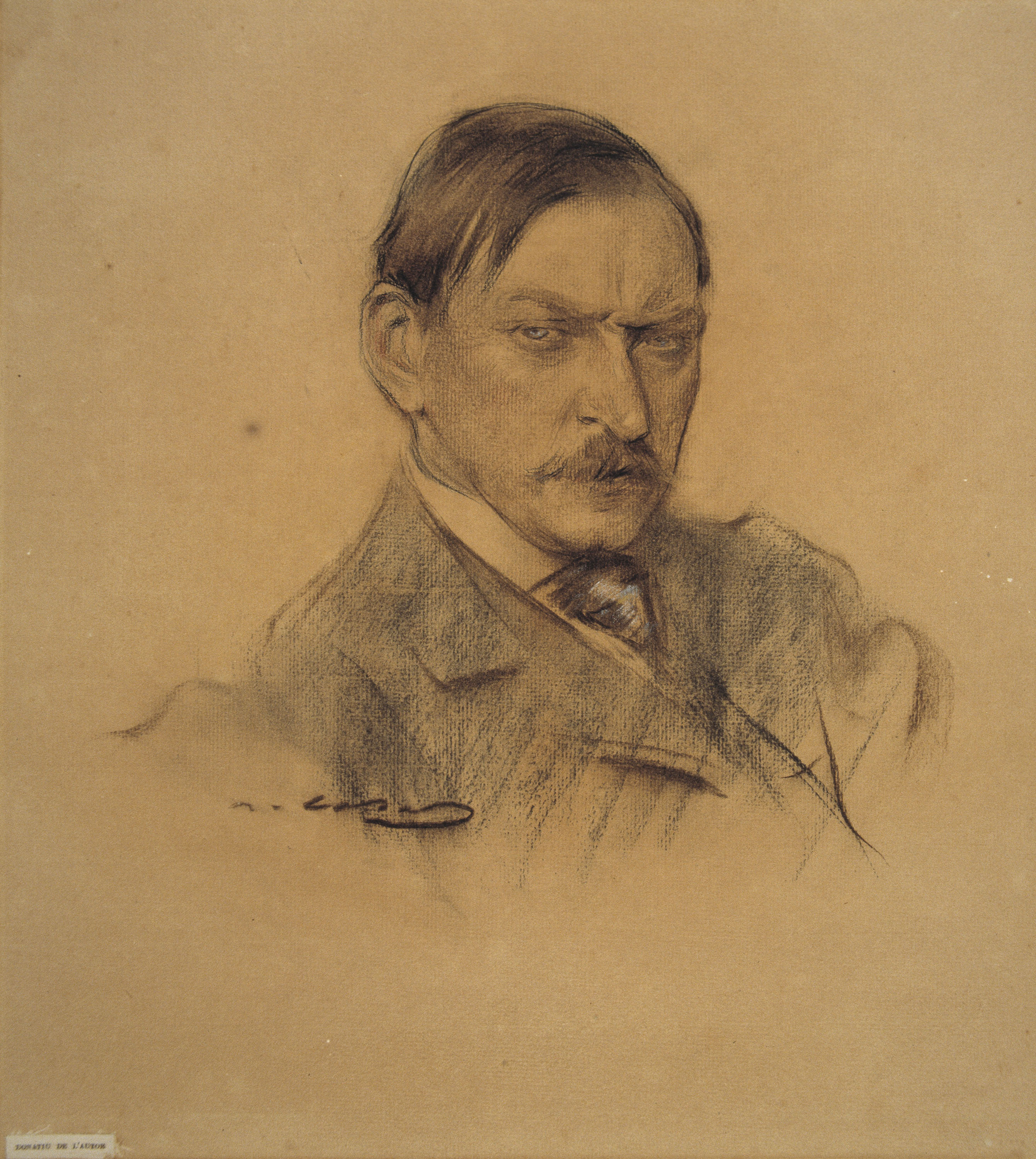 Portrait by Ramon Casas conserved at MNAC in Barcelona. Imagen 022